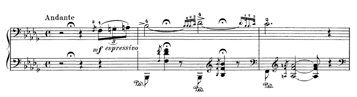 Extract from the Liszt Hungarian Rhapsody No.6, S244